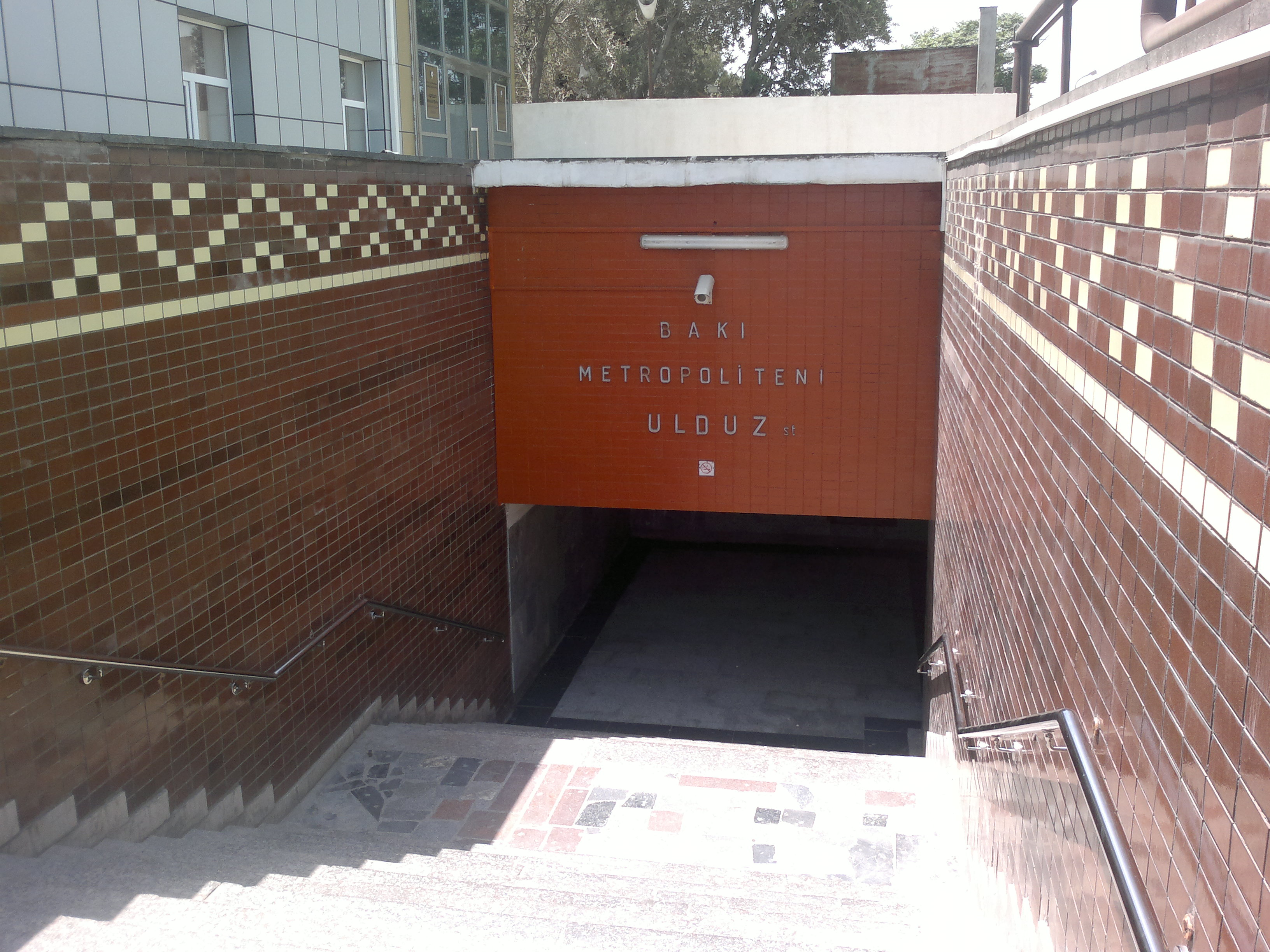 Ulduz stations in Baku